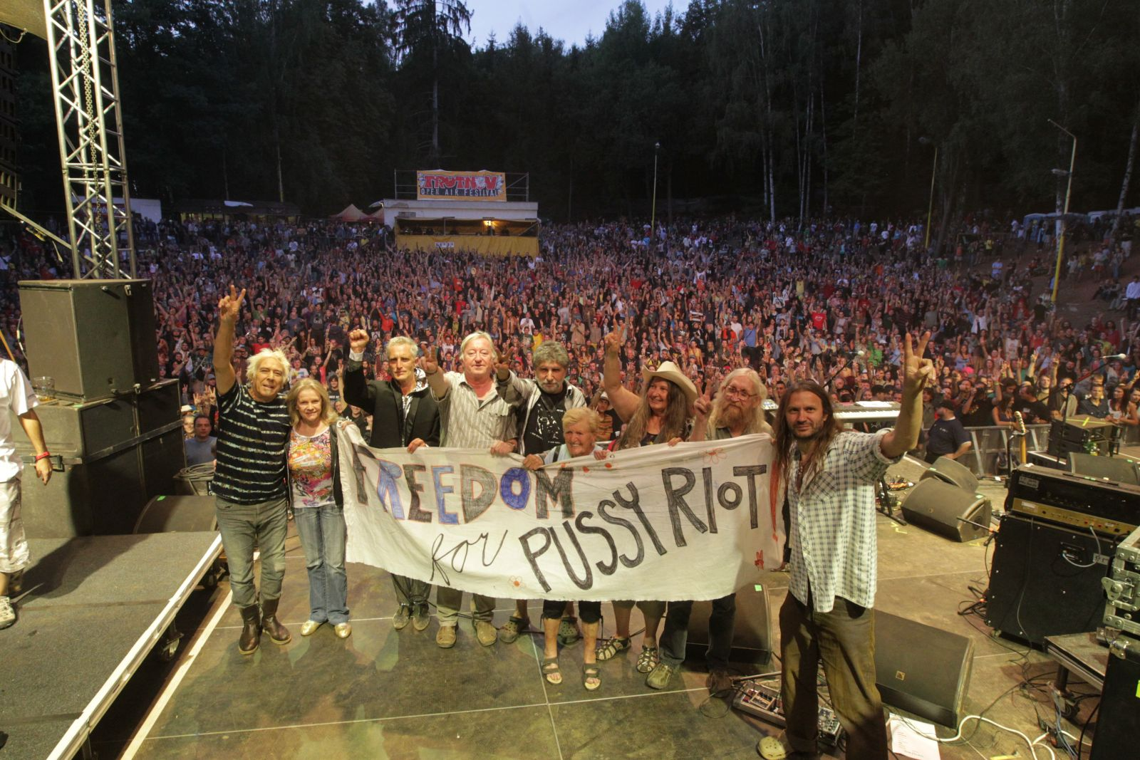 Tribute to Pussy Riot at Trutnov Open Air Festival 2012, l-r: John Cale, Eva Pilarová, Tomáš Hanák, Jiří Lábus, Břetislav Rychlík, Dáda Fajtlová, Dáša Vokatá, Vratislav Brabenec and Martin Věchet.